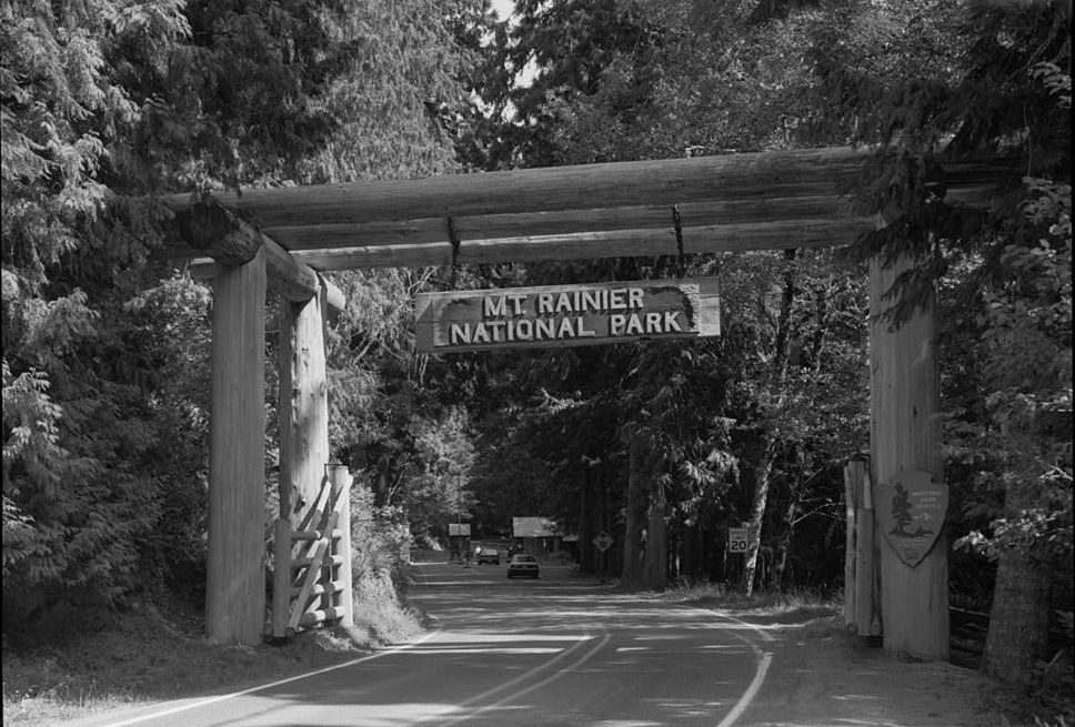 Nisqually Entrance, Mount Rainier National Park